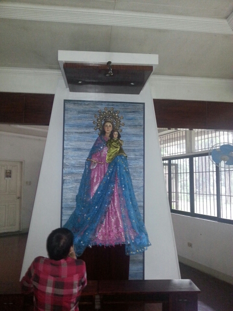 A devotee before the Statue of Mary Help of Christians at Diocesan Shrine of Mary Help of Christians, Canlubang, Calamba City, Laguna, Philippines